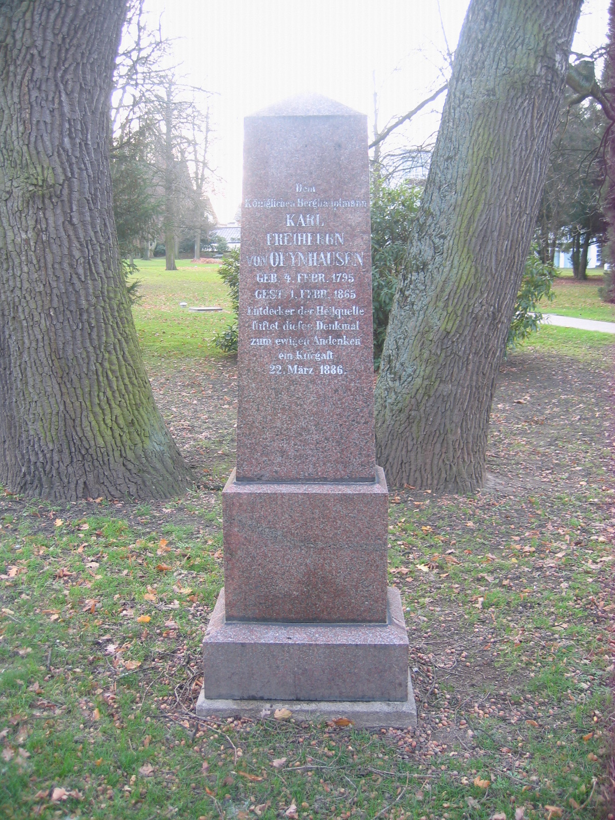 Spa Garden in Bad Oeynhausen, District of Minden-Lübbecke, North Rhine-Westphalia, Germany.